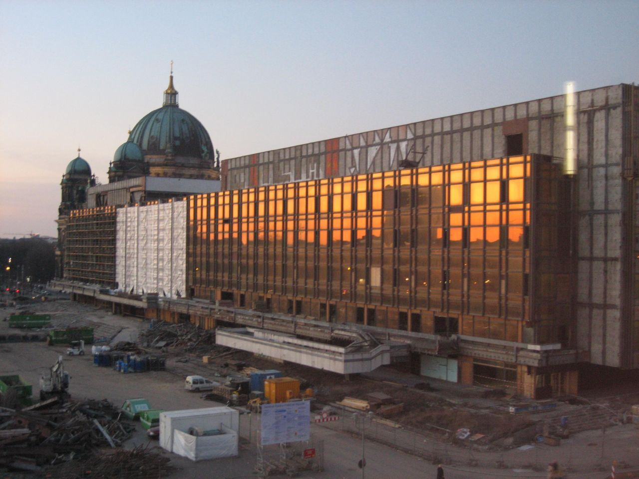 Berlin - demolition of the Palast der Republik in march 2006